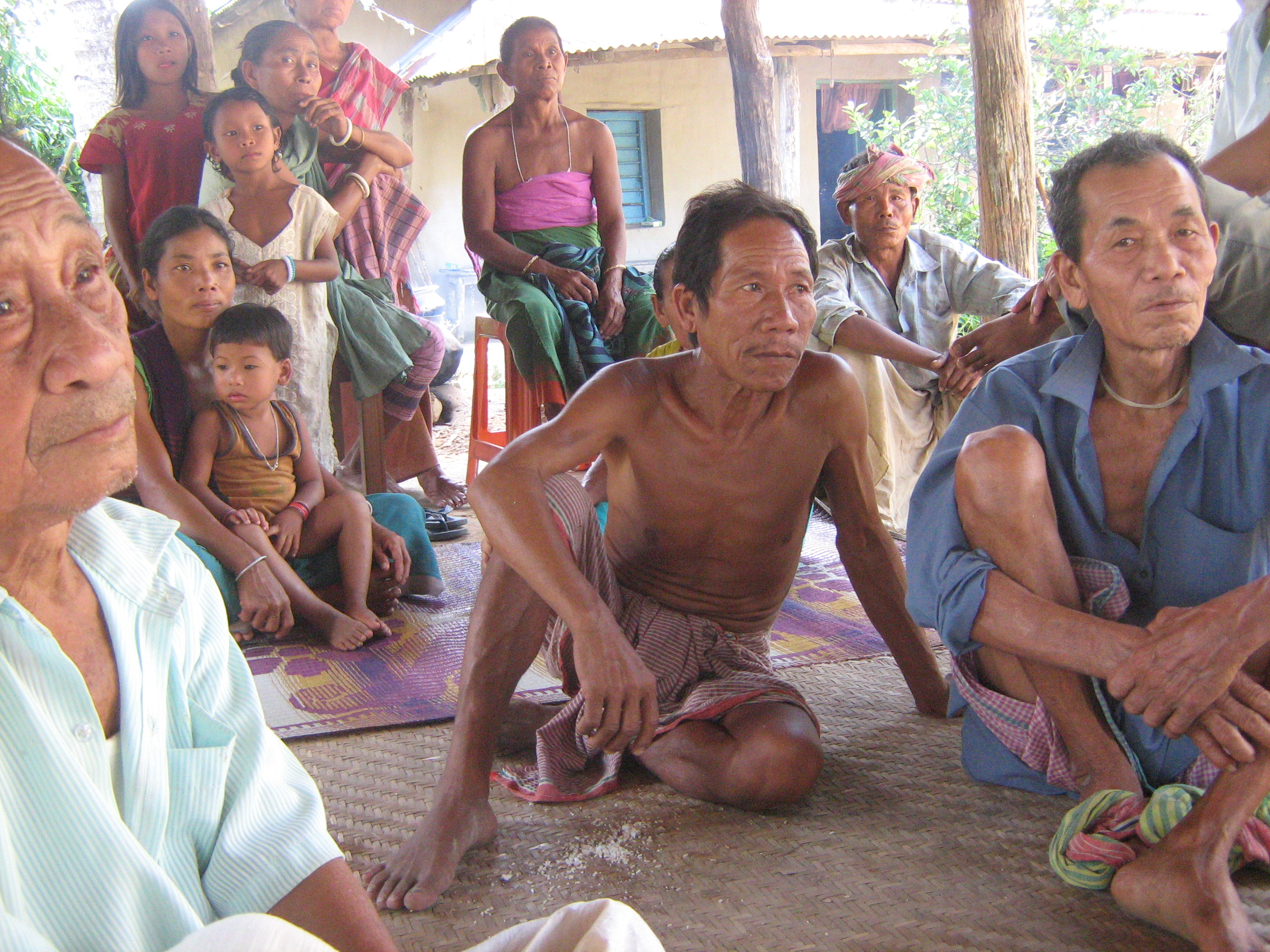 The Kalai tribe in Dwar Kai Kalai Kami, Jampui Jala, Tripura